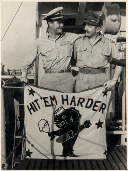 Com. Dealey, skipper of the Harder (SS-257), on right on deck with the ship's pennant, February 1944.